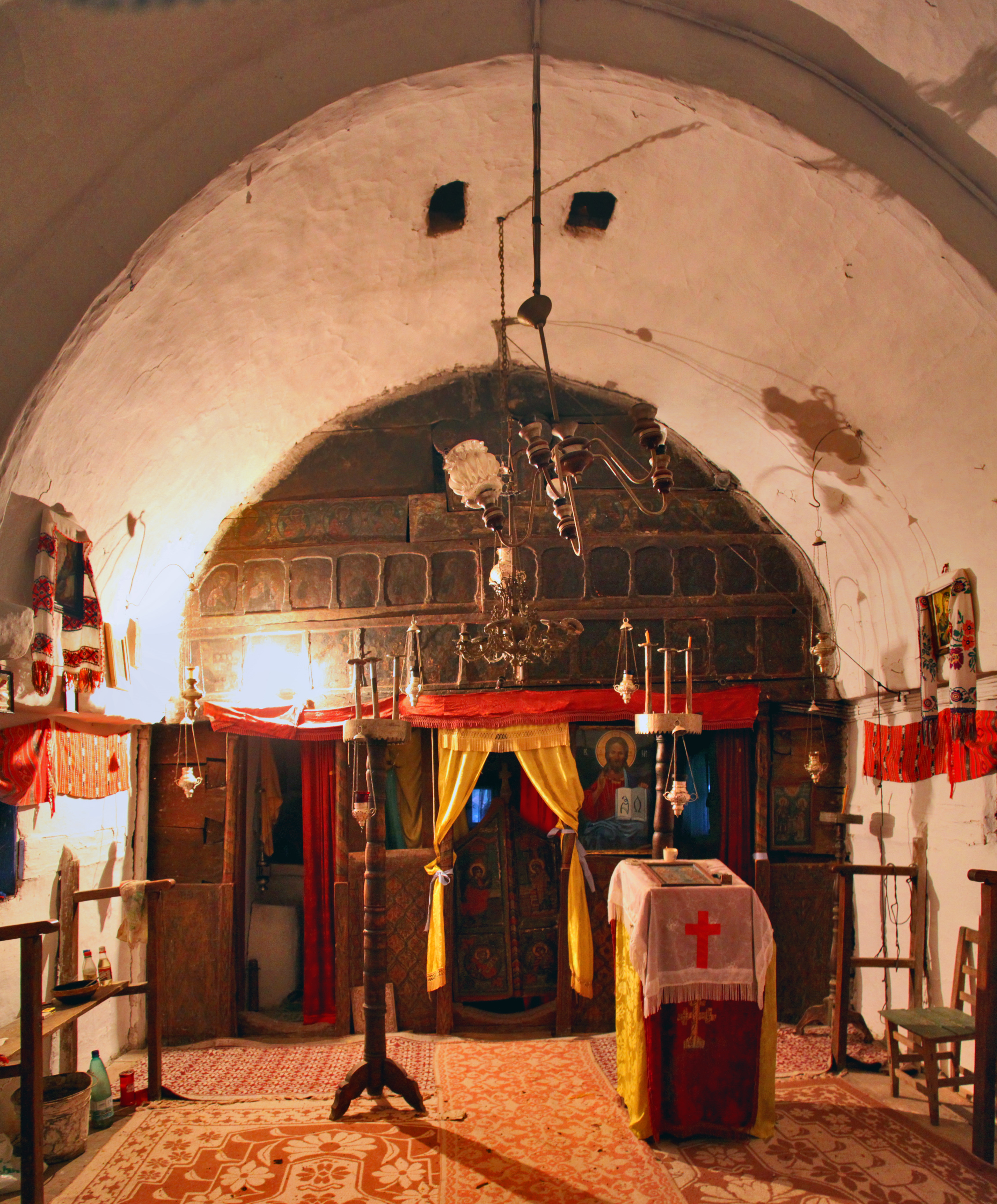 Bălţăţeni, Vâlcea county, Romania: the wooden church, inside the nave towards iconostasis.